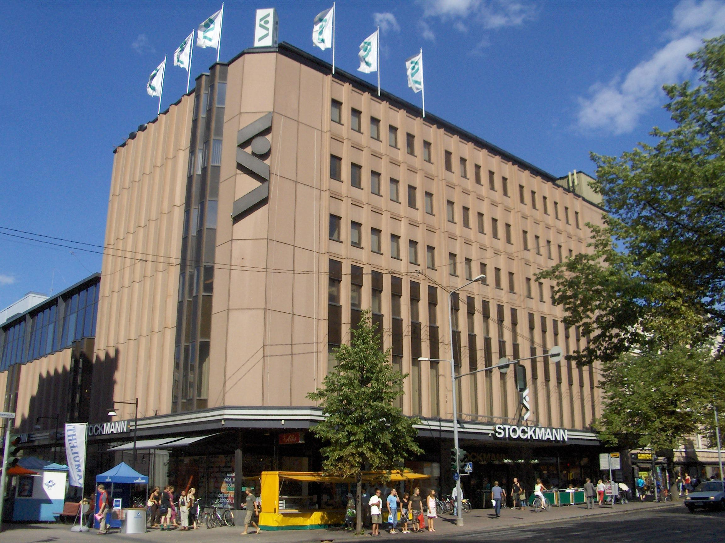 Stockmann department store in Tampere, Finland